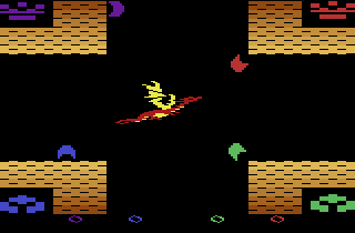 Screenshot of the Atari 2600 homebrew game Medieval Mayhem by Darrell Spice Jr.